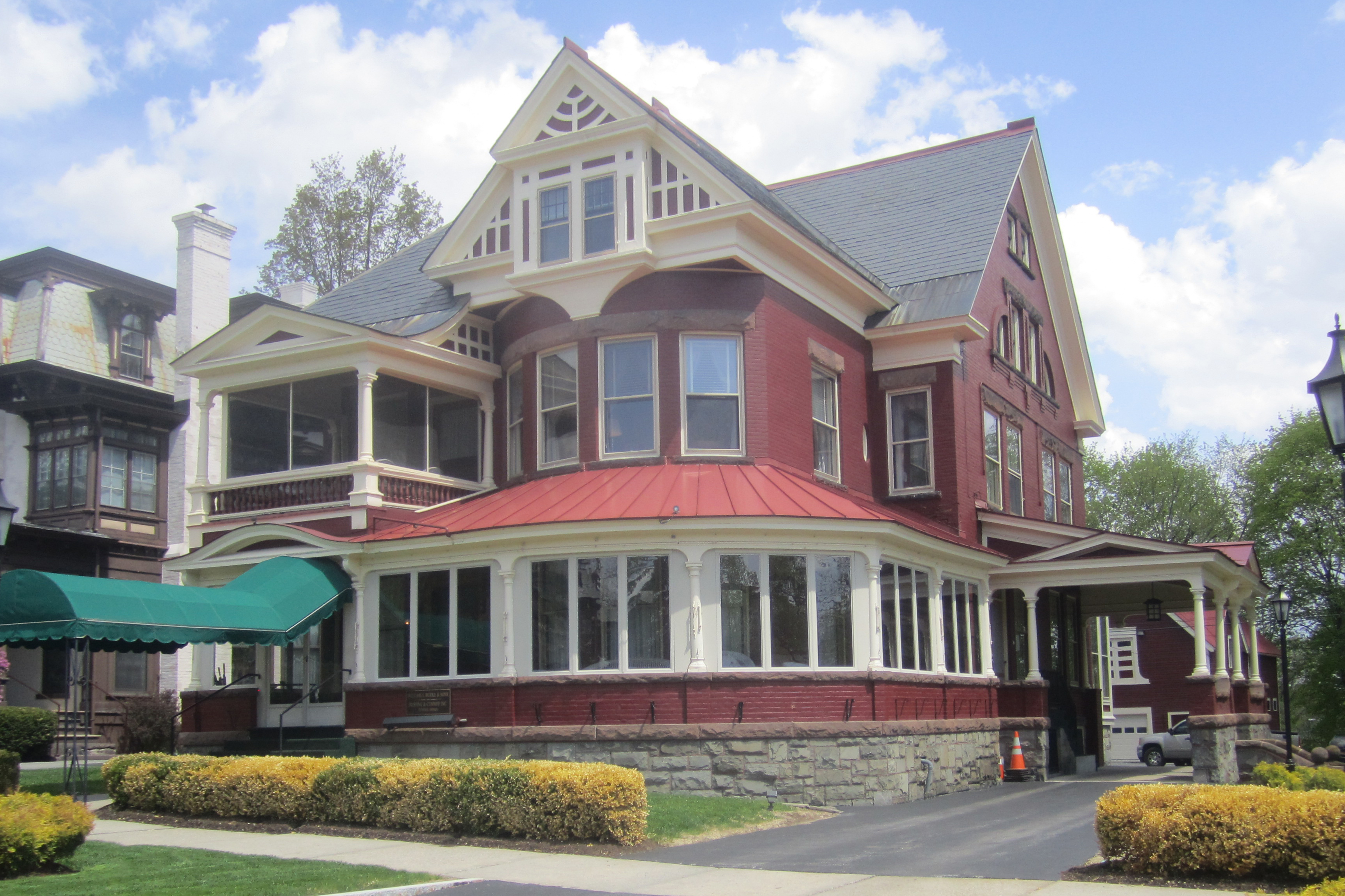 628 North Broadway, Saratoga Springs NY, a residence designed by R. Newton Brezee for Captain A. DeR. Mcnair, 1887